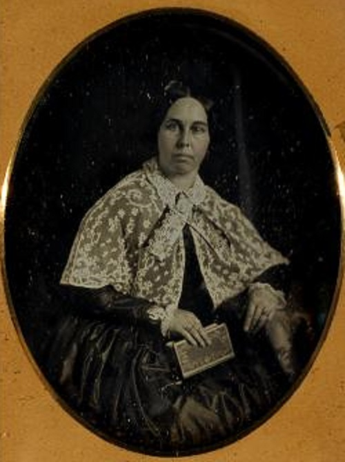 Portrait of Anna H. Wilstach (Mrs. Wm P. Wilstach)